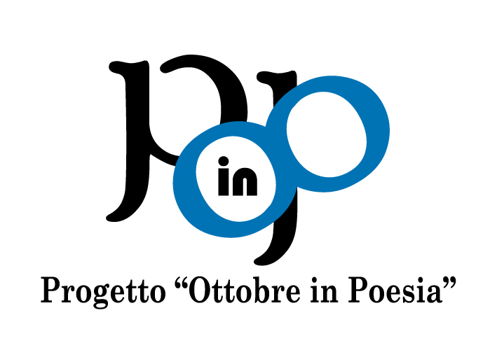 Ottobre in Poesia logo